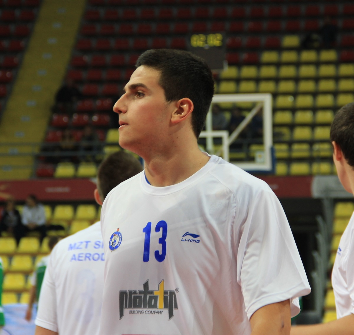 љубомзт